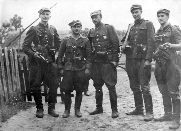 Soldiers of 5th Wilna Home Army (Armia Krajowa) Brigade 1945. Żołnierze V Wileńskiej Brygady AK. Stoją od lewej: ppor. Henryk Wieliczko "Lufa", por. Marian Pluciński "Mścisław", mjr Zygmunt Szendzielarz "Łupaszka", wachm. Jerzy Lejkowski "Szpagat", Zdzisław Badocha „Żelazny”